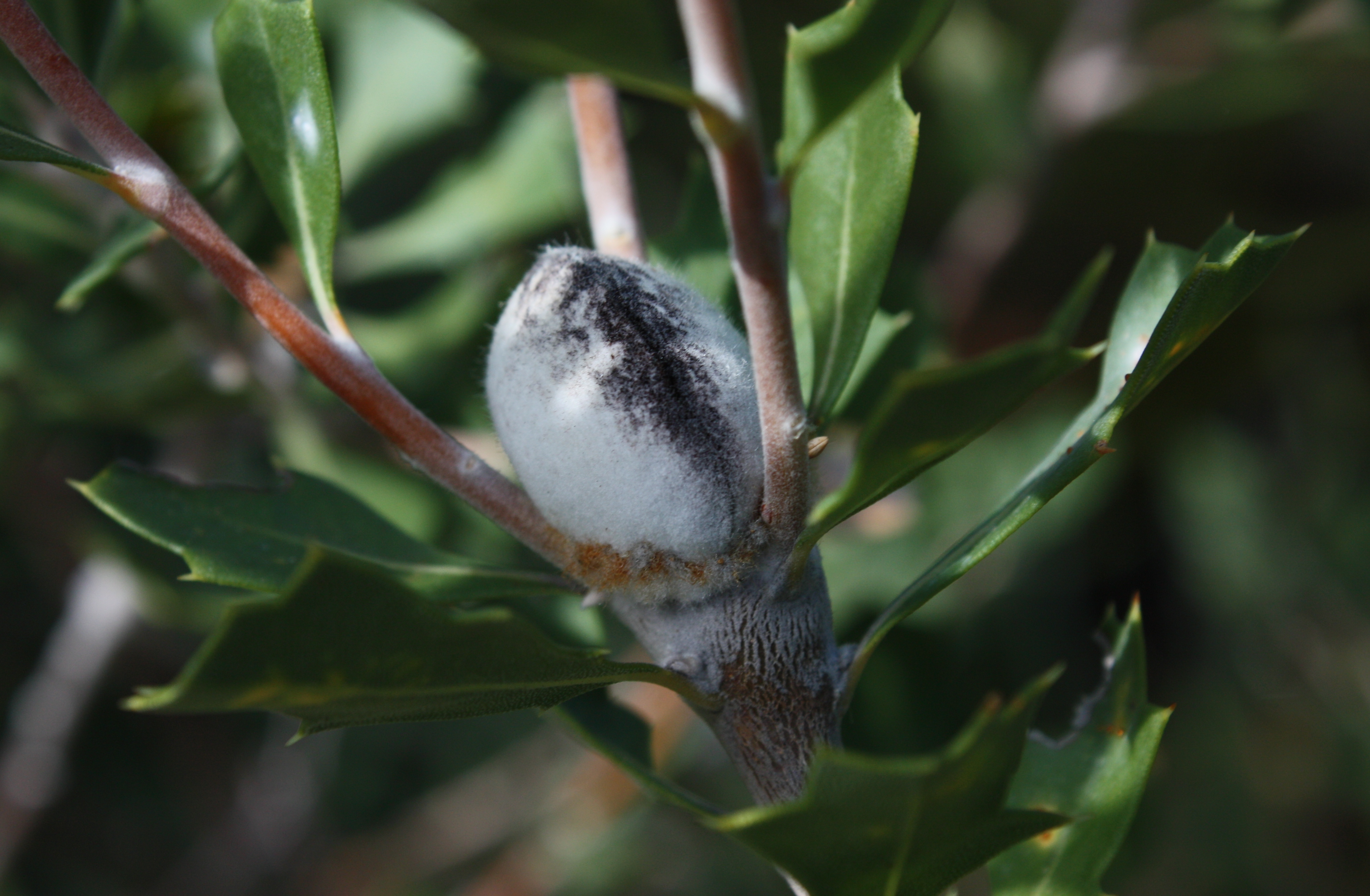 Infructescence of Banksia cuneata, with a single closed follicle, in cultivation, Kings Park, Perth, Western Australia